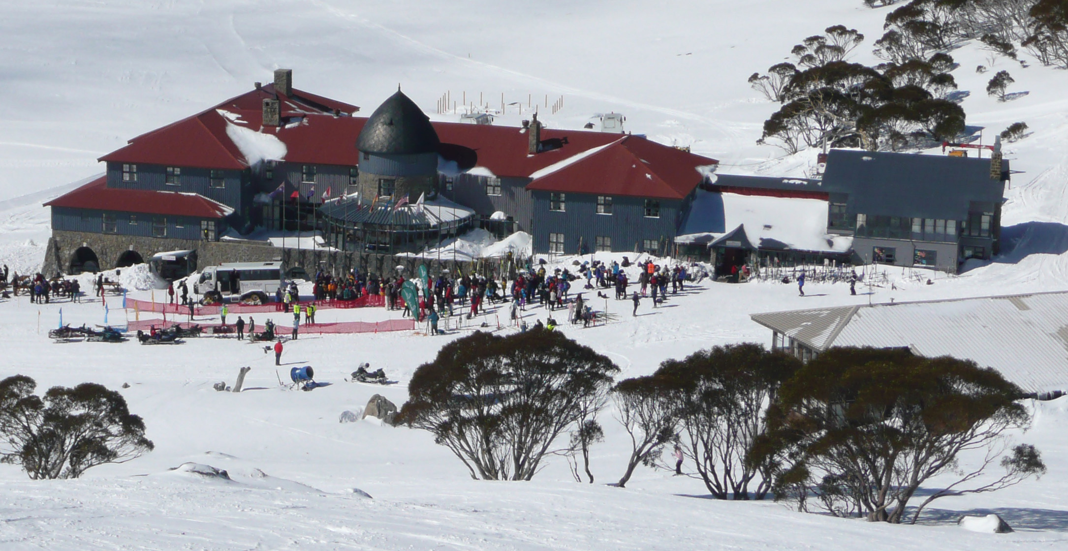 The Chalet at Charlotte Pass Village Australia taken on 13 August 2008, the day of the KAC Perisher to Charlotte Pass cross country ski race.